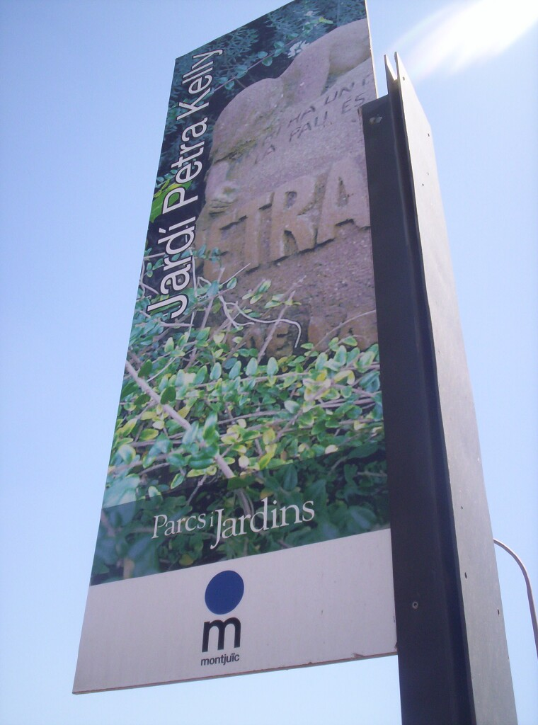 Sign for Petra Kelly Garden on Mount Juic, Barcelona Spain.